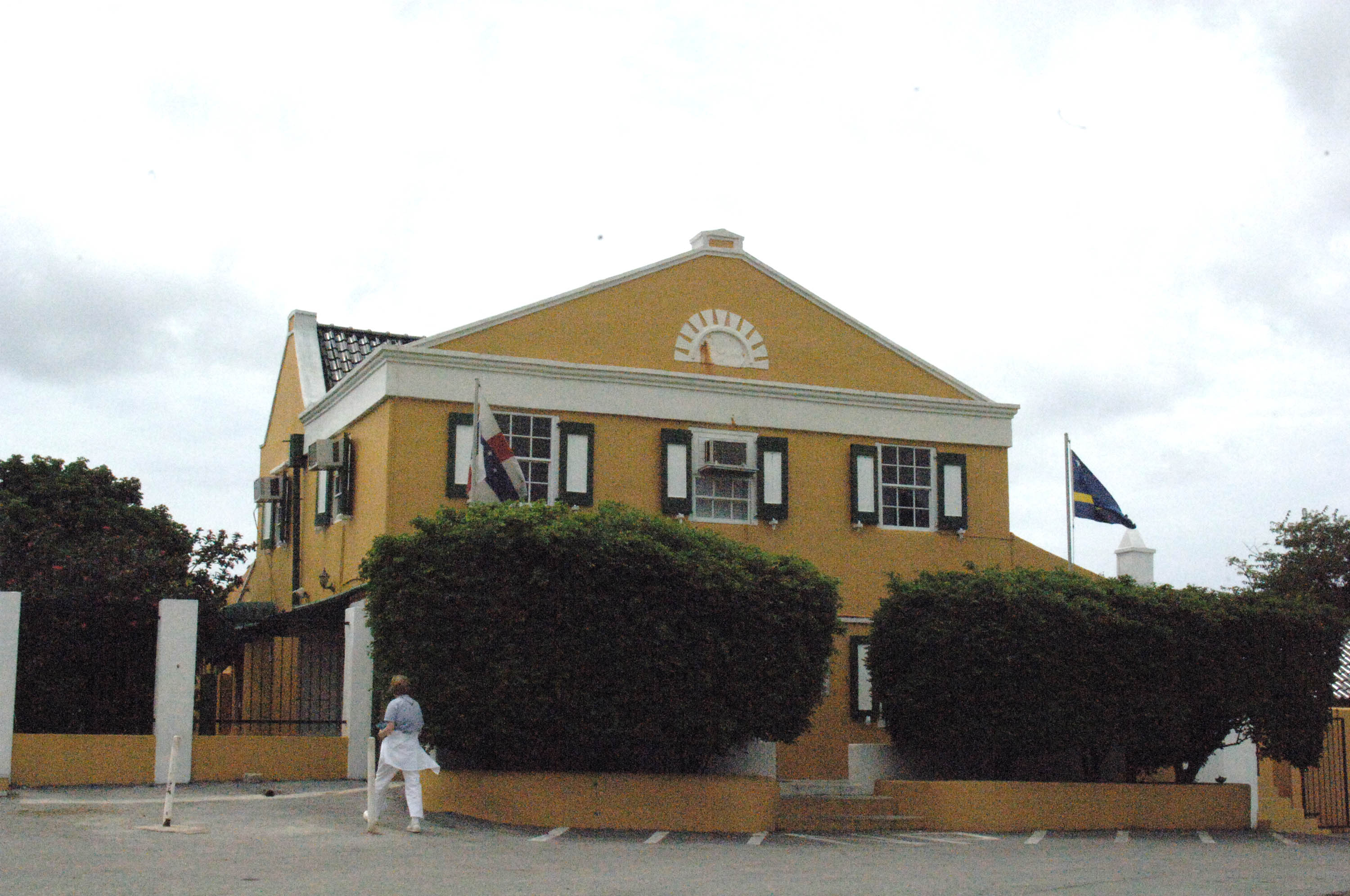 18TH C. HERE THE FIRST CURACAO LIQUEUR WAS MADE FROM VALENCIA ORANGES WHICH BECAUSE OF THE ACID SOIL WERE TOO BITTER TO EAT BUT WERE SUITABLE TO MAKE A DISTINCTIVE LIQUEUR.